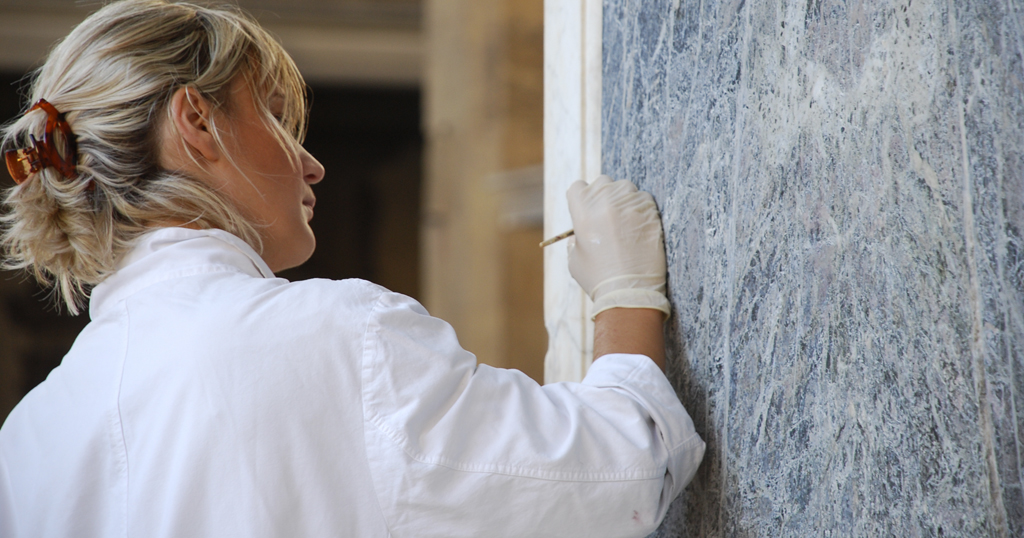 A restorer at work (Loggia dei Lanzi, Florence, Italy)